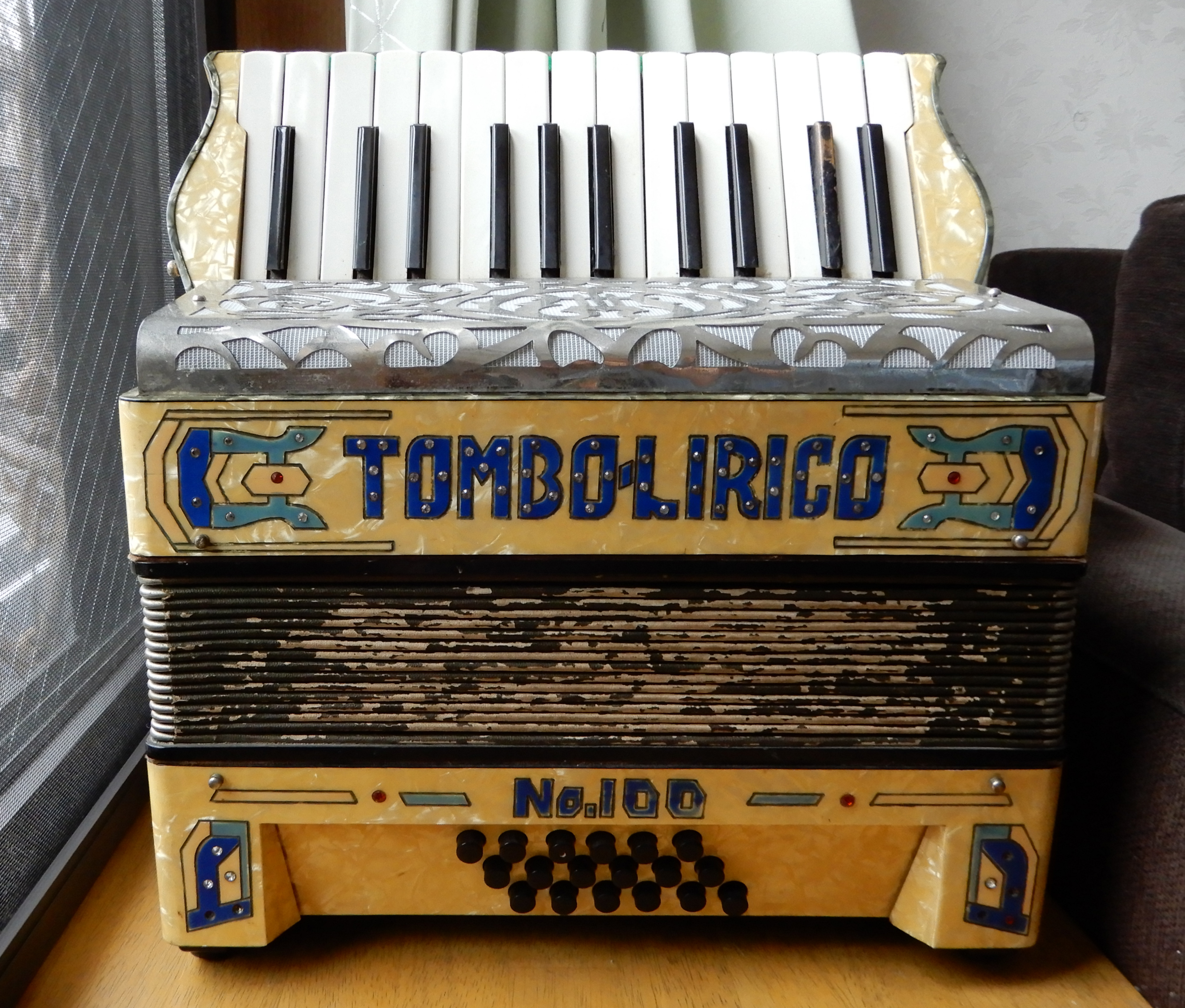 a vintage model 25-key 18-bass piano accordion TOMBO LIRICO No.100, made in Japan in 1930s